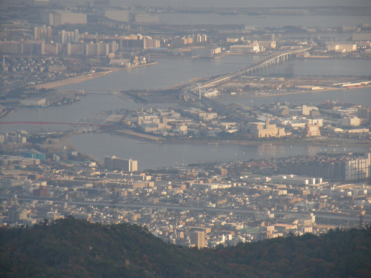 Rokko-shidare 六甲枝垂れ-Rokko garden terrace